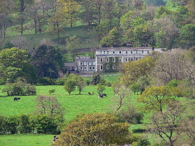 Waddow Hall, Clitheroe. Waddow hall overlooks the River Ribble. Photographed at long range from Clitheroe Castle.